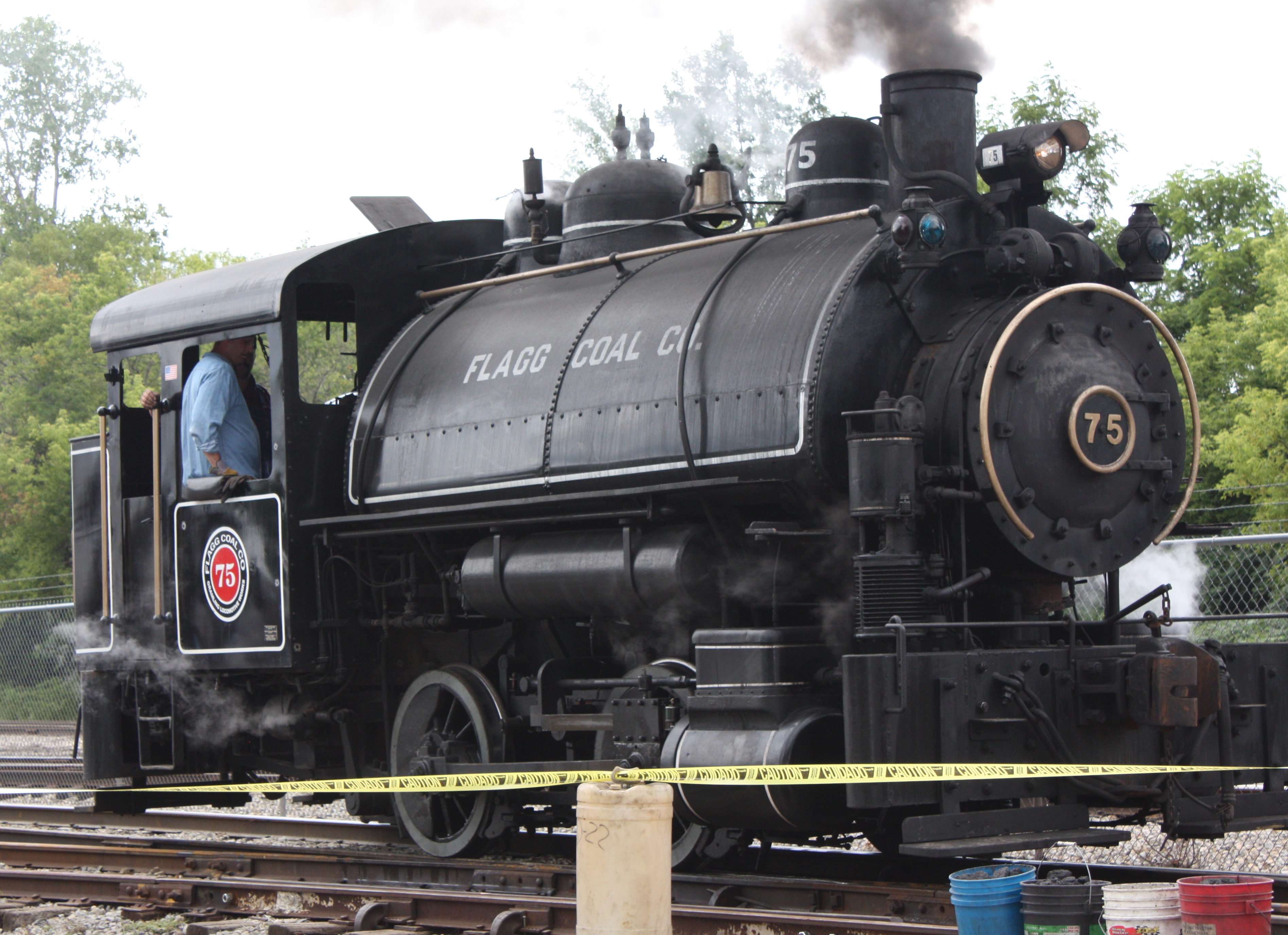 Flagg Coal 0-4-0T No.75 at Train Festival 2009 in Owosso Michian. This locomotive is owned by John and Barney Gramling of Ashely, Indiana.